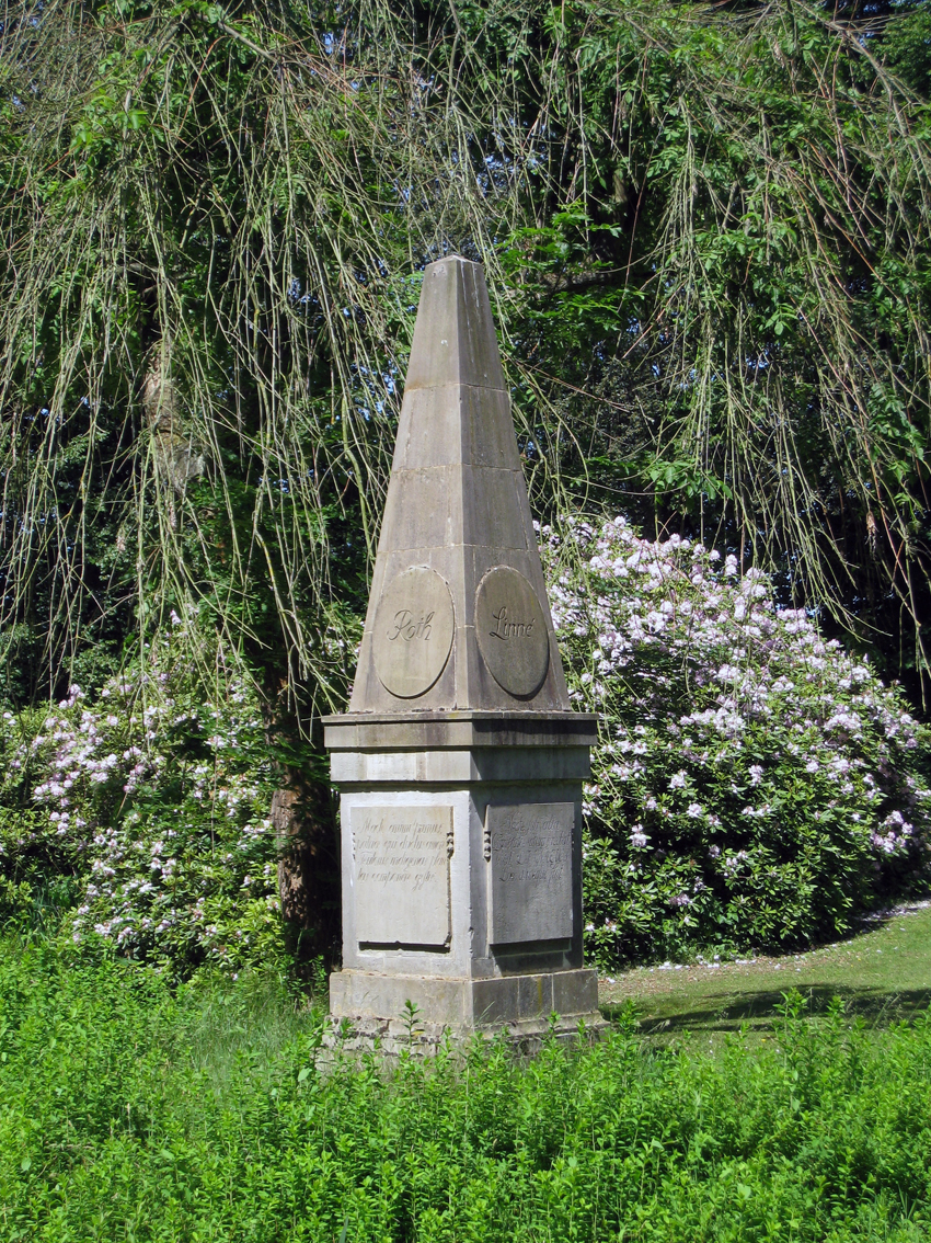 The Linnaeus-Obelisk in the park Höpkensruh in Oberneuland, Bremen (Germany), erected around 1800 to commemorate the naturalists Carl von Linné, Albrecht Wilhelm Roth, Albrecht von Haller and Nikolaus Joseph von Jacquin. The original monument was made by Jacob Friedrich Schultz, in 1977 the obelisk was restored by Kurt Lettow.